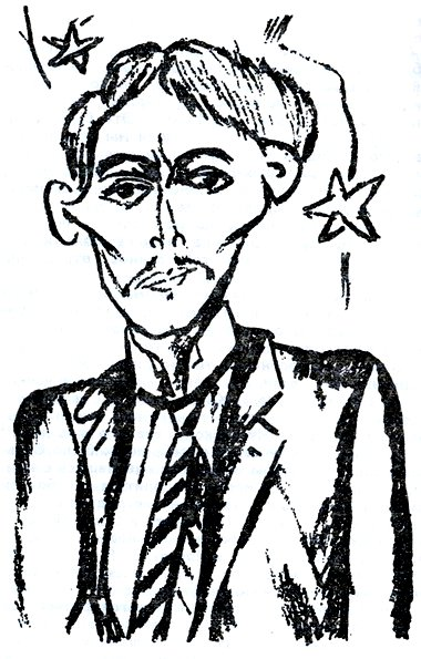 Alexei Kruchenykh by Mikhail Larionov 1912 etching